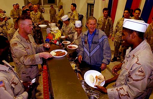 U.S. President George W. Bush meets with troops and serves Thanksgiving Day Dinner at the Bob Hope Dining Facility, Baghdad International Airport, Iraq,, Nov. 27.2003 ([1])